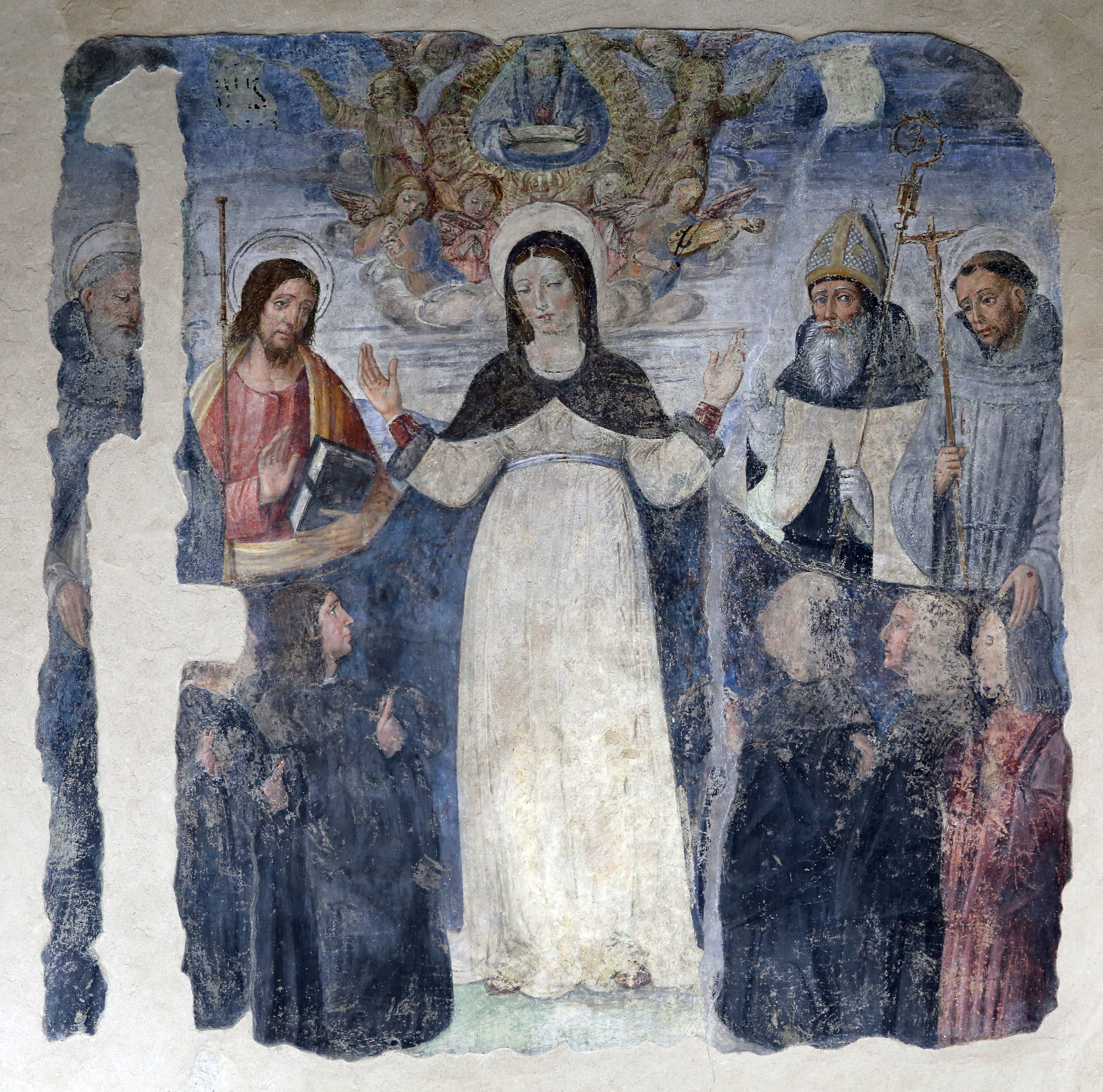 Museo della ceramica di Savona